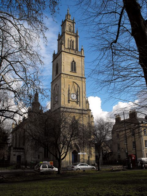 St Paul Bristol St Paul Bristol, Portland Square, viewed from the north side of the square. A view from the west and links to details about church in this Geograph